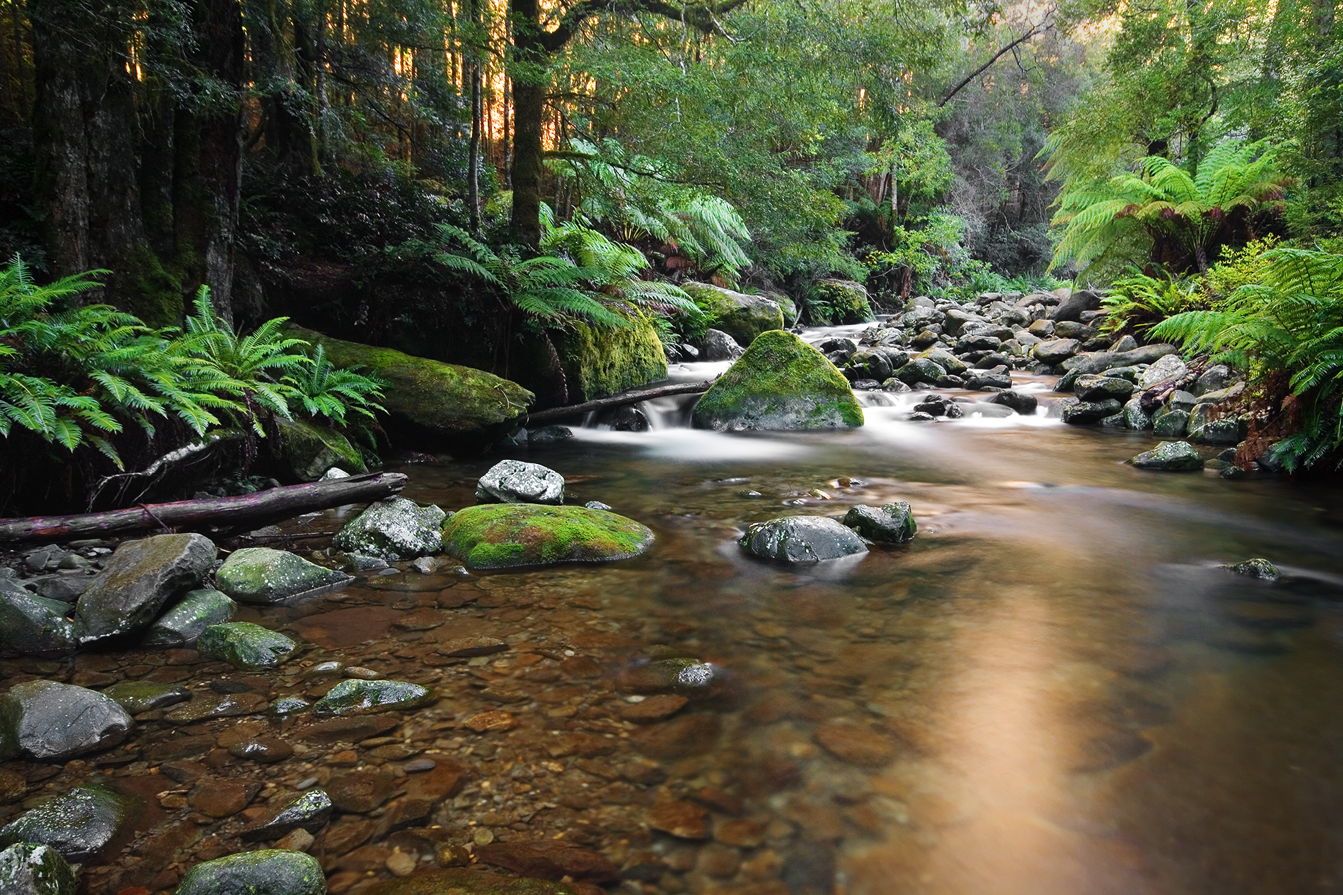 Liffey River, Liffey, Tasmania Camera data Camera Canon EOS 400D Lens Sigma 10-20mm F4-5.6 EX DC HSM Filter 4x ND Filter and Circular Polarizer Focal length 16 mm Aperture f/9 Exposure time 15 s Sensivity ISO 100